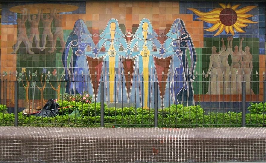 Mural painting of Clovis Graciano (1907-1988), executed in 1958, mounted in 1959, in the façade of Nações Unidas Building, on Paulista Avenue (São Paulo, Brazil).